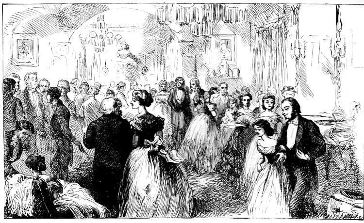 Showing the social swirl in which the merchant Podsnap moves